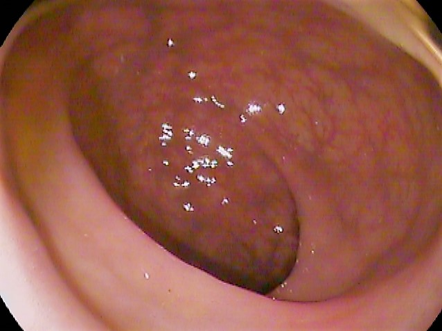 normal rectum 70y.o. Japanese / colonoscopy